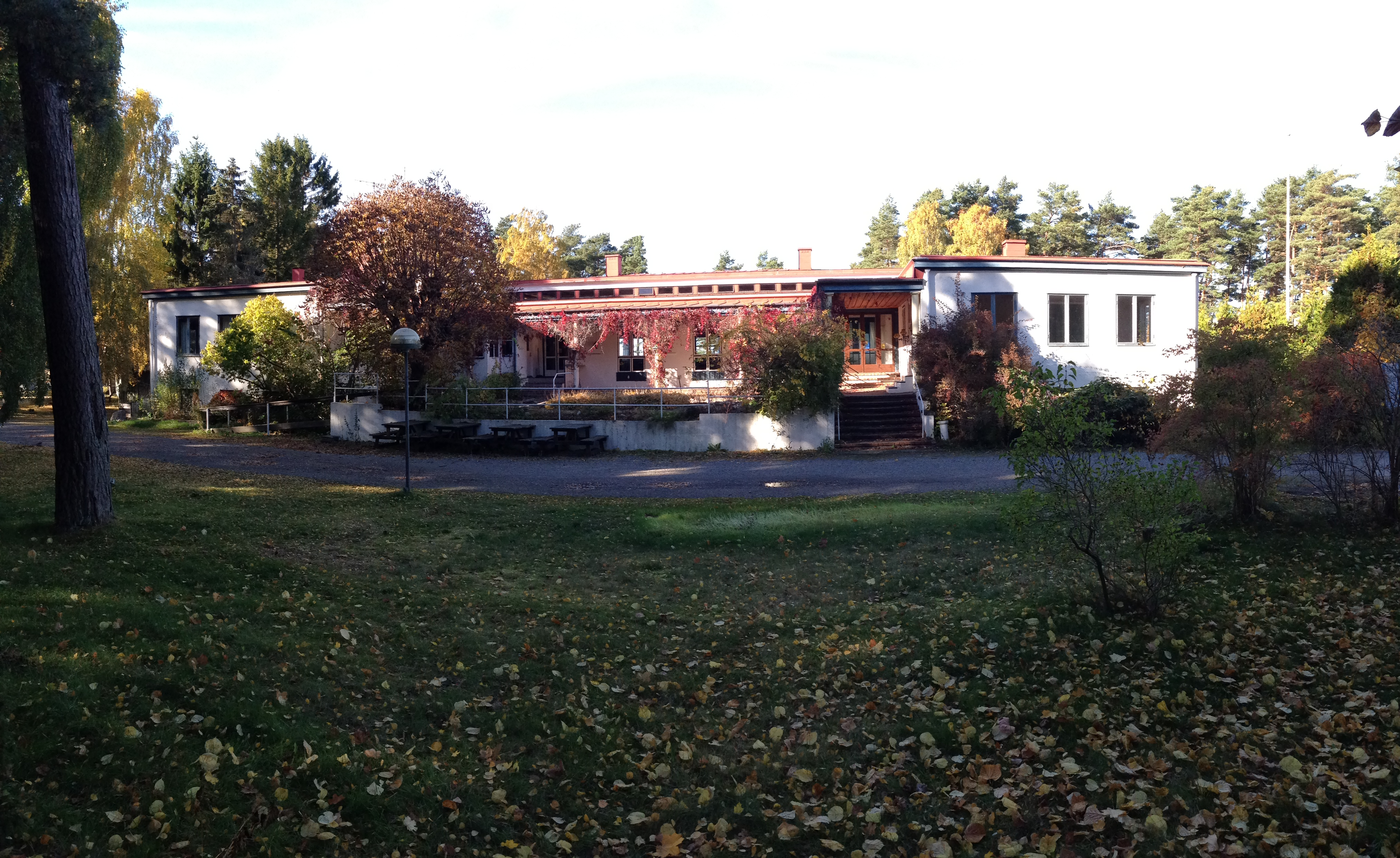 The Restaurant of Hotel Riviera, Båstad